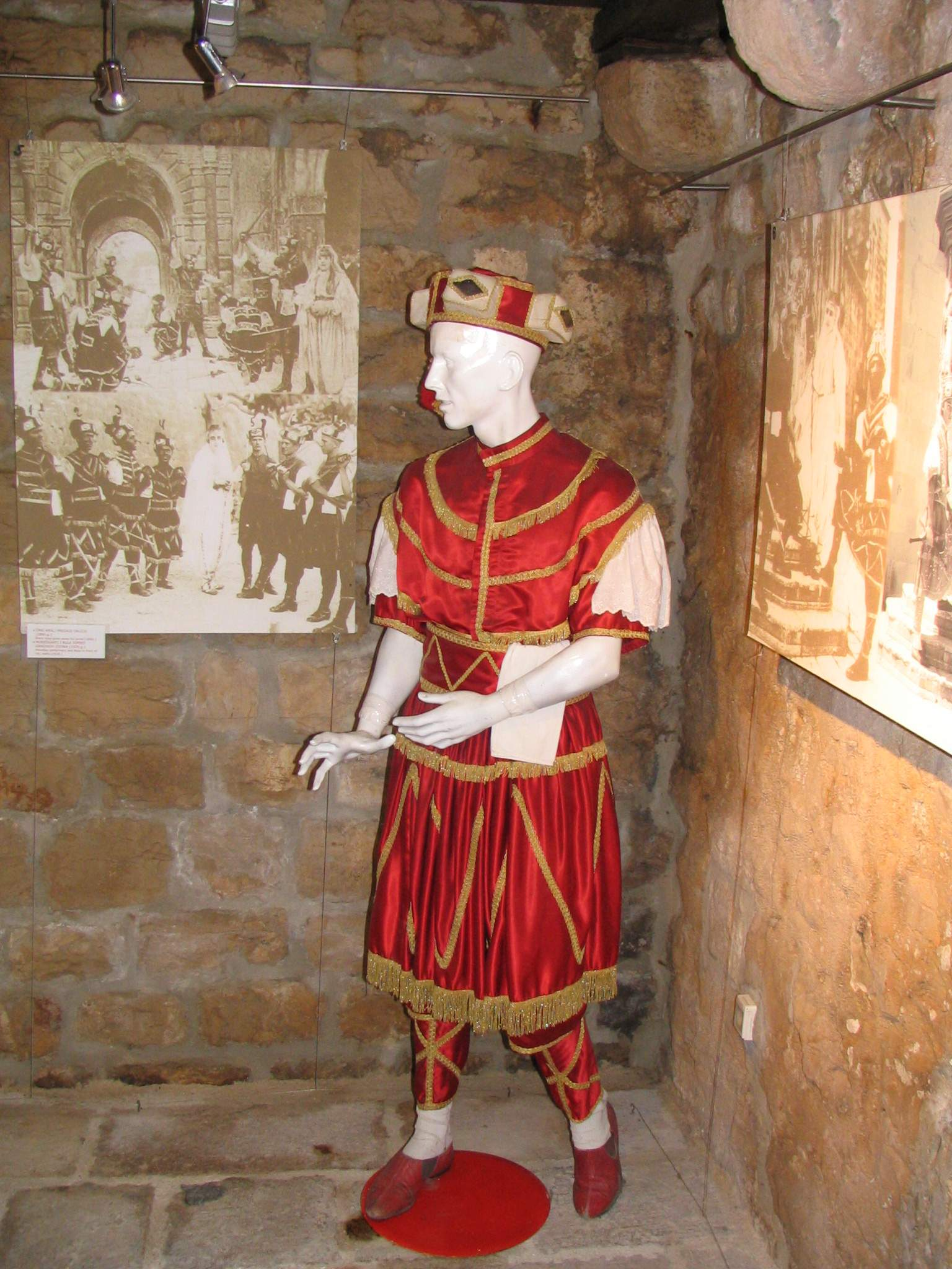 Own photo. Moreshka suit (Korchula,Croatia)